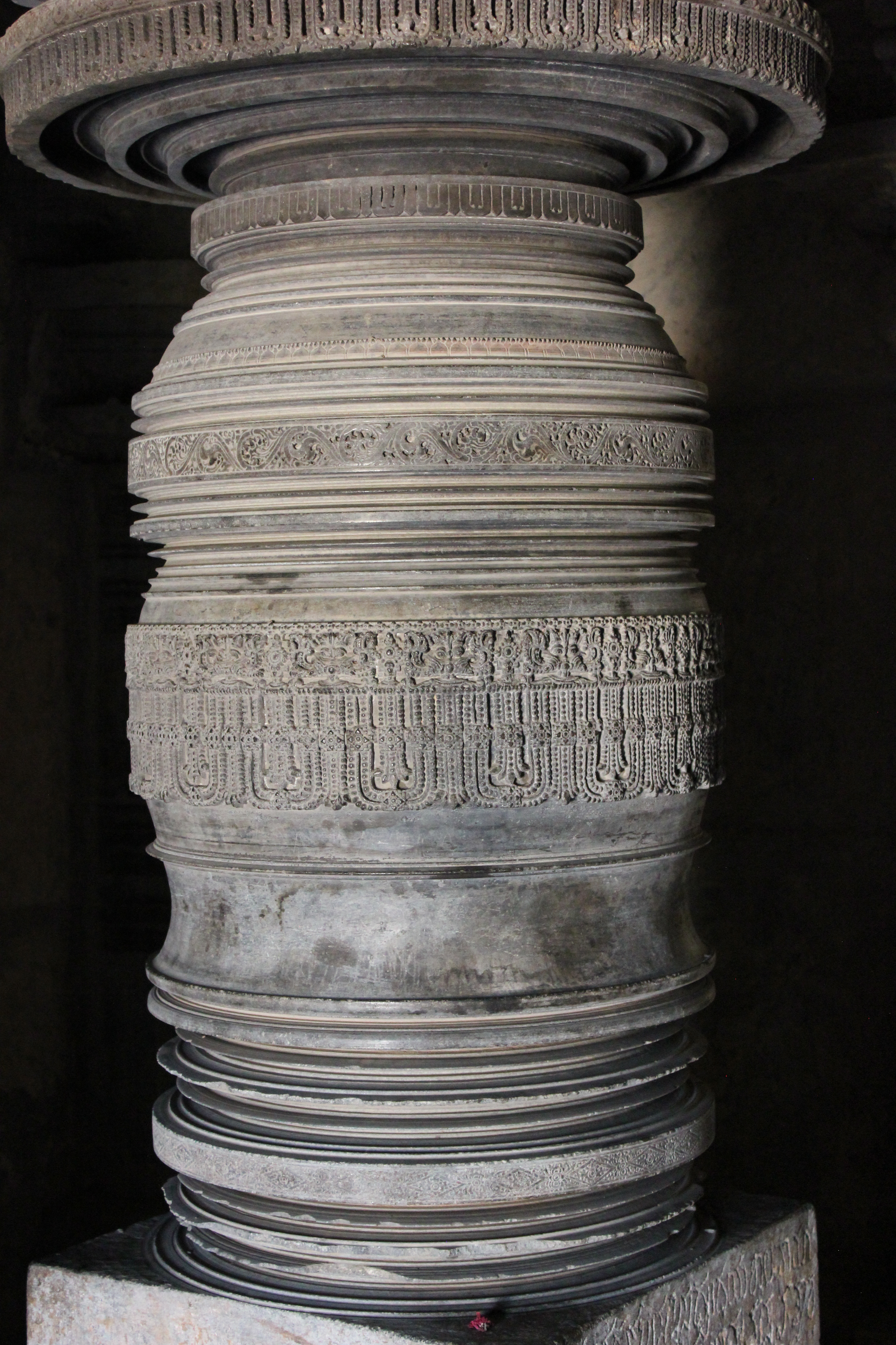 This photograph was taken by me (Dinesh Kannambadi) in the Shantinatha Basadi at Jinanathapura, Hassan district, Karnataka state, India. The Basadi was built around 1200 AD during the rule of the Hoysala Empire King Veera Ballala II.